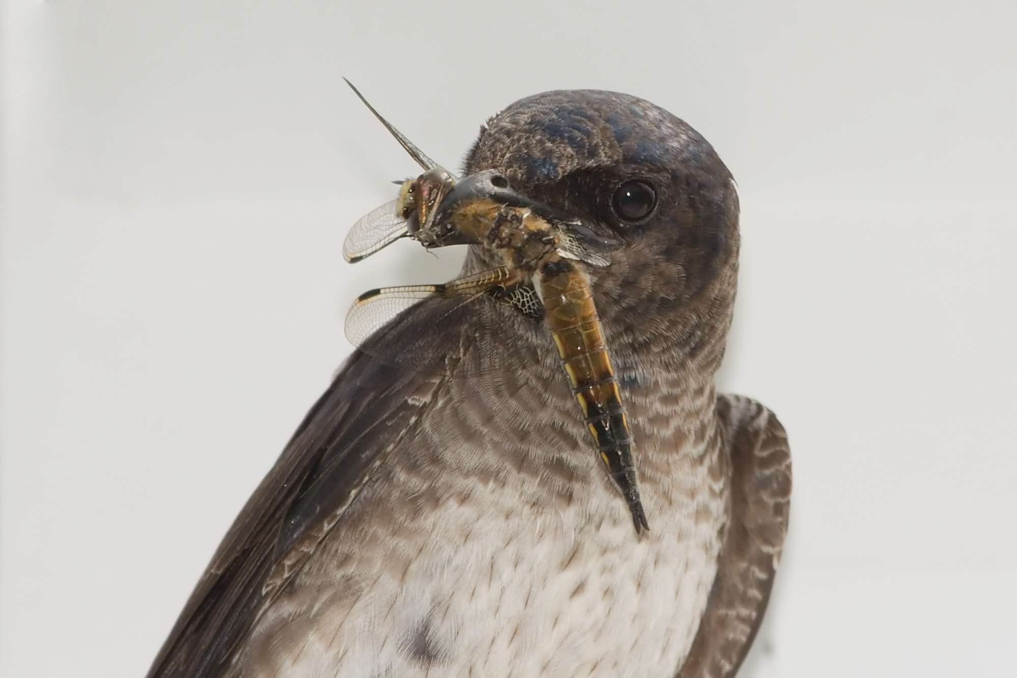 A Purple Martin (Progne subis) captured a Four spotted Chaser (Libellula quadrimaculata), taken at the Horicon National Wildlife Refuge, Wisconsin